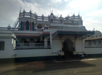 Kanadukatthan Palace, Sivaganga District, Tamil Nadu, India